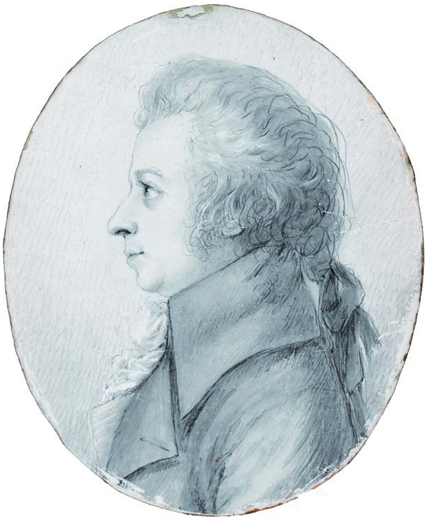 The medium of the drawing is called "silverpoint" (German "Silberstiftzeichnung"), which is described in the English Wikipedia article: Silverpoint. The drawing was made when Mozart visited the city of Dresden in April, 1789.